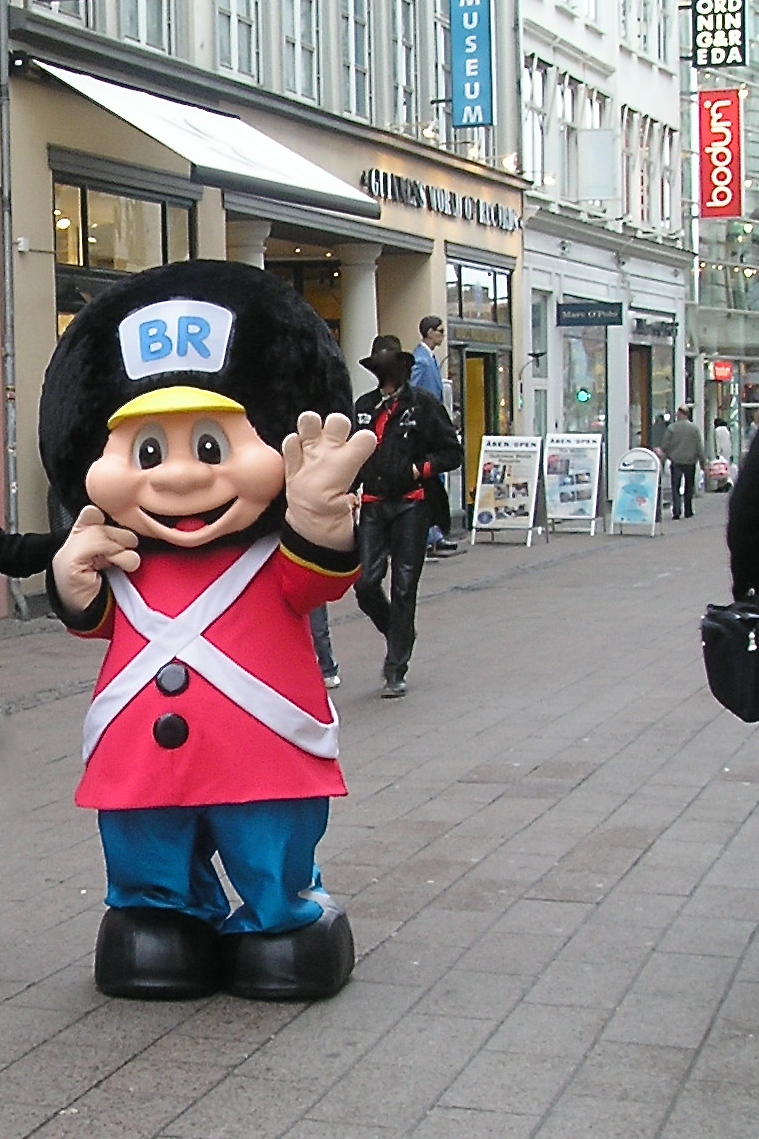 The danish toy store company Fætter BR's mascot walking on the Copenhagen pedestrian street Strøget.